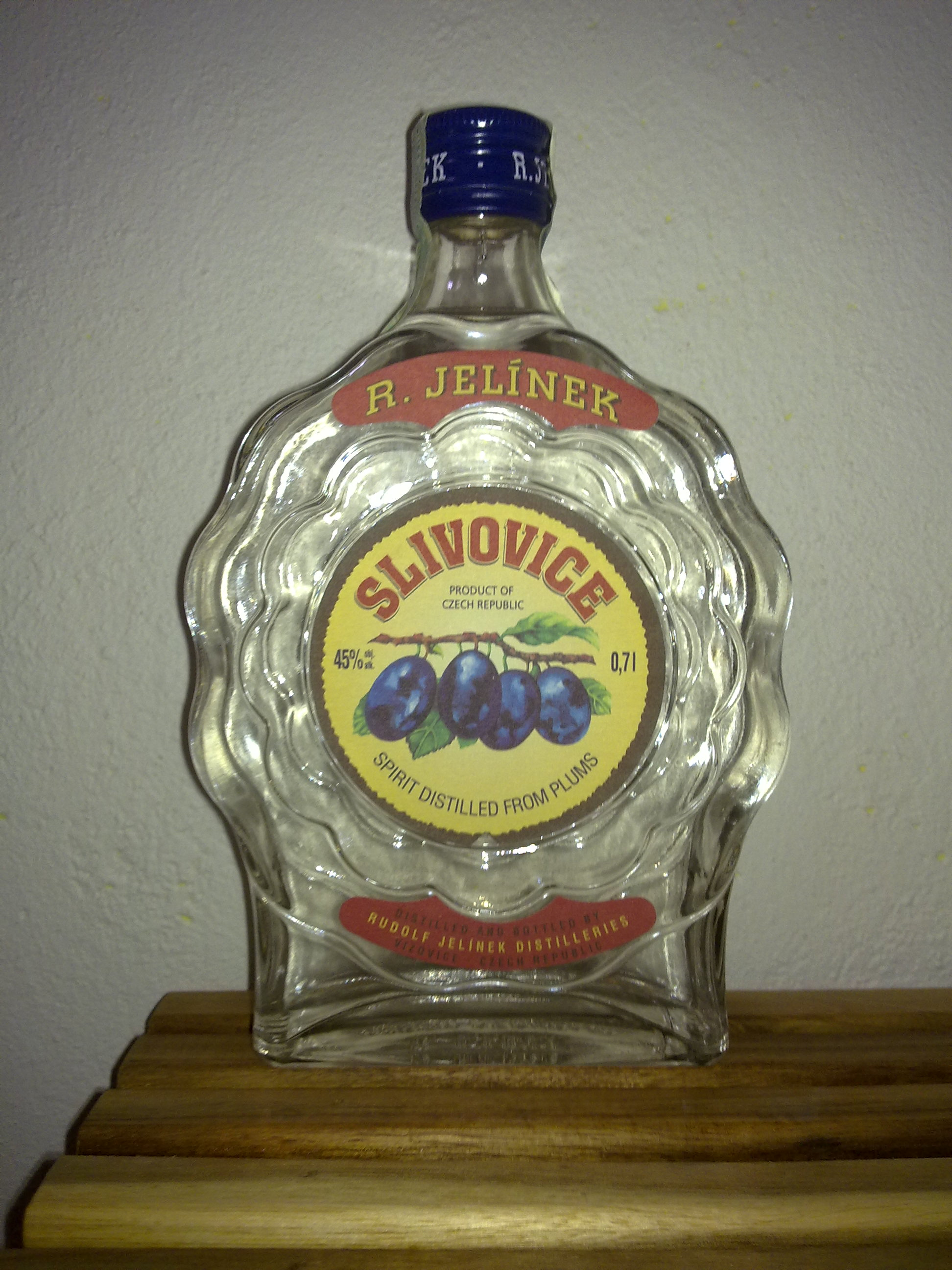 Rudolf Jelinek bottle of slivovitz